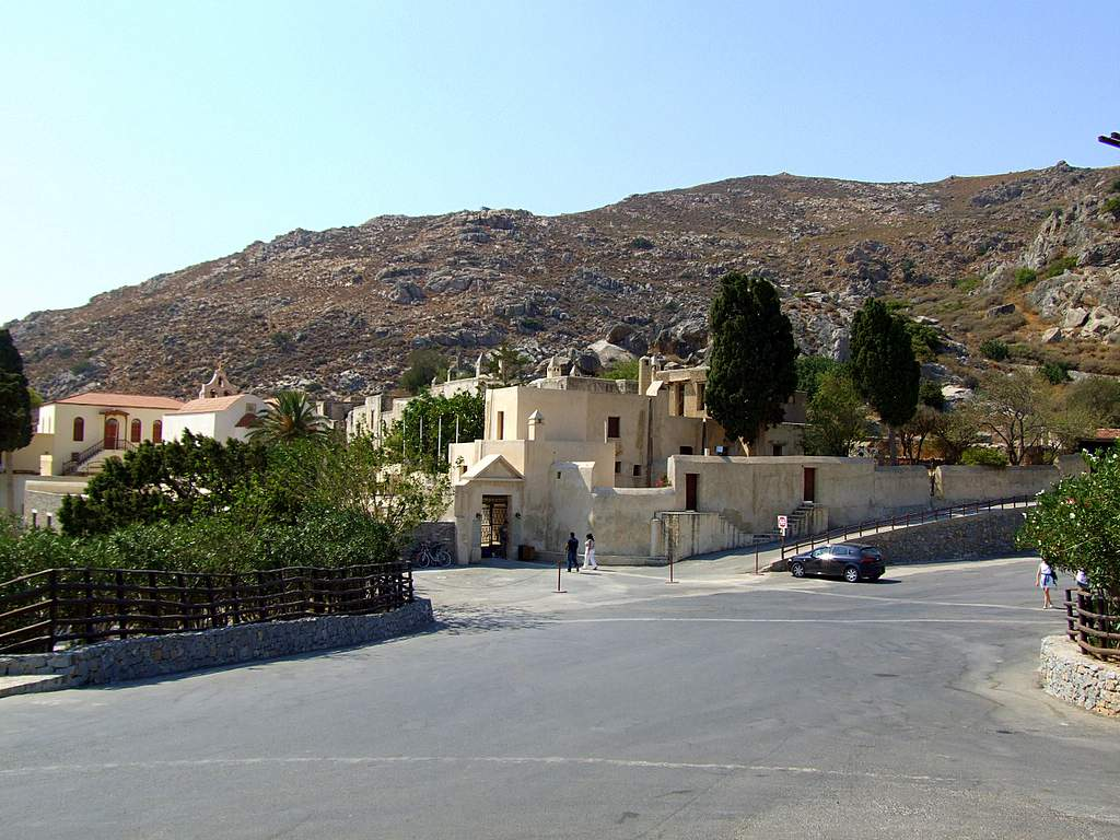 The Holy Stavropegiac and Patriarchal Preveli Monastery of Saint John the Theologian (Evangelist), known as the Monastery of Preveli is located at the south of Prefecture of Rethymnon and it is the most sacred part of the Holy Diocese of Lambis and Sfakion, in whose the spiritual jurisdiction belongs. The monastery is consisted of two main building complexes, the Lower (Kato) Monastery of Saint John the Baptist and the Rear (Pisso) Monastery of Saint John the Theologian which is in operation today. The Preveli Monastery and its dependencies cover a large estate land of the Phoenix Municipality towards the Libyan sea and along the Great River (Megalos Potamos), which ends at this point. The Monastery has a glorious history due to the active and leading involvement of its fellow monks in all national endeavourers for freedom and education of our people. Thus, it merits specific recognition and respect throughout the island of Crete. (